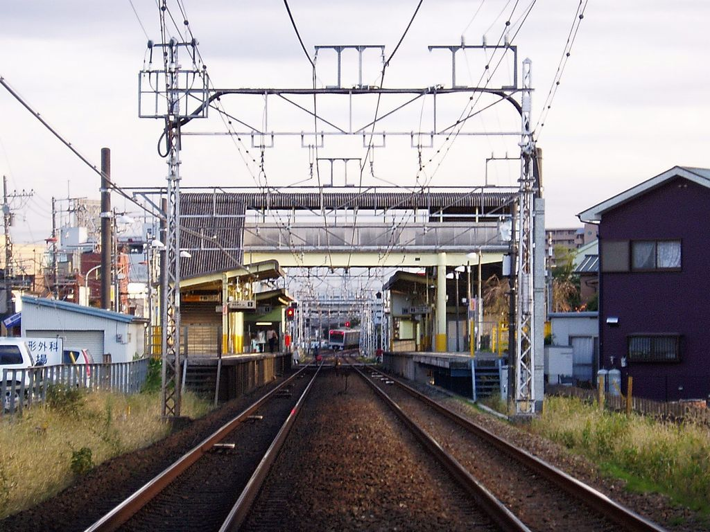 Odakyu Electric Railway Company, Hotaruda Sta. 2007.11.19 Photo by Cassiopeia_sweet.